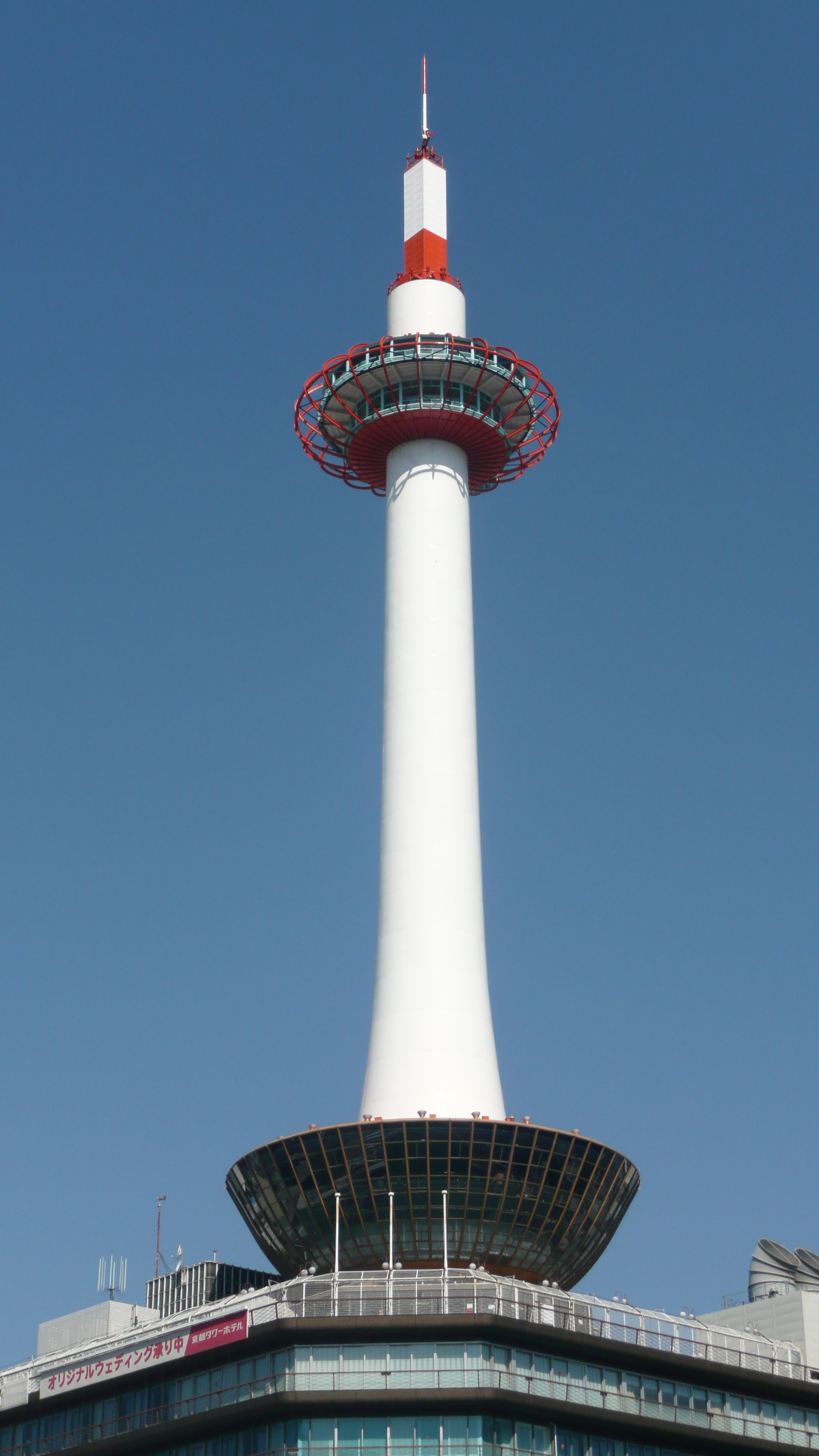 Kyoto Tower, Japan